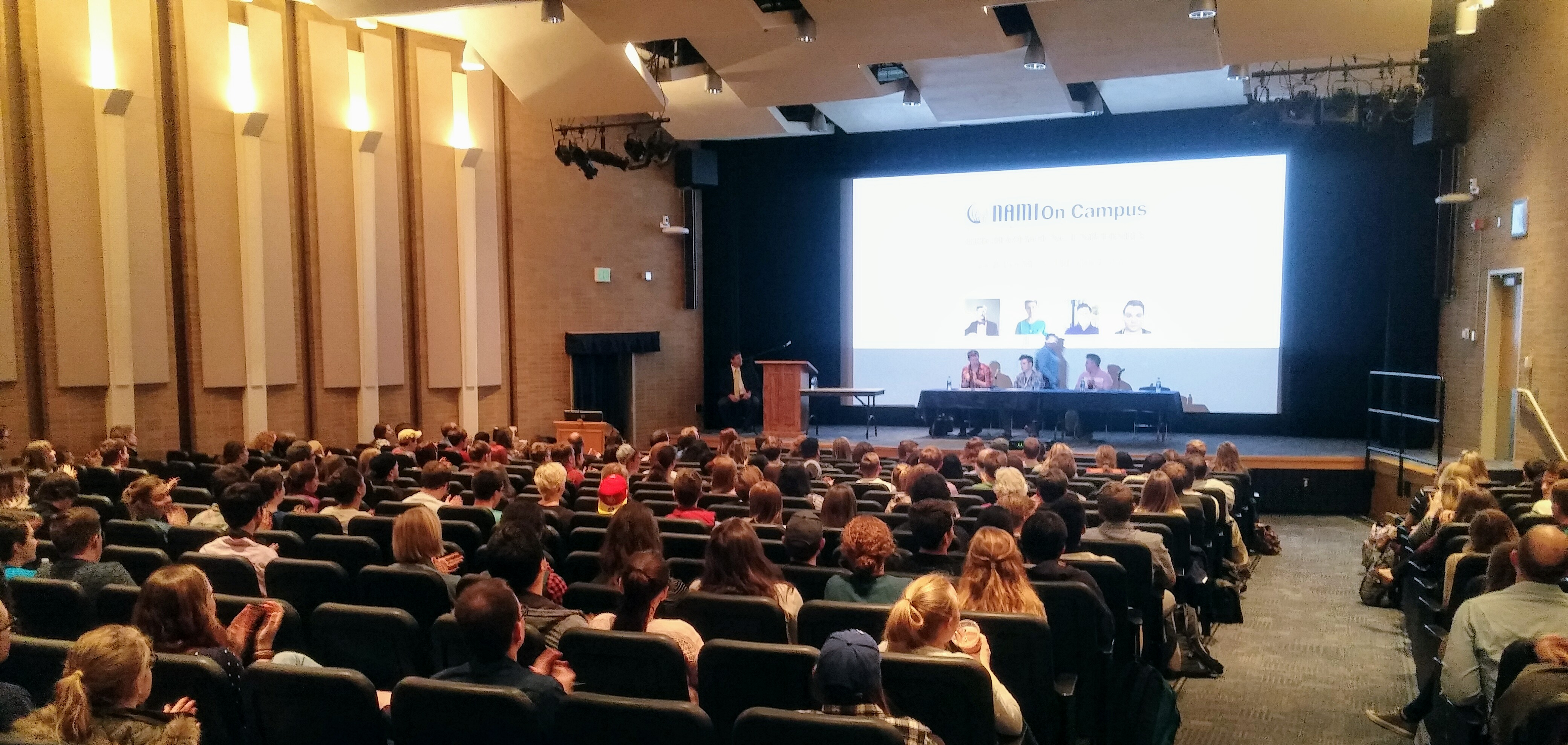 6 April 2017 NAMI panel event at BYU's Varsity Theater of LGBTQ+ BYU students on mental health concerns.